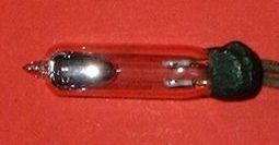 mercury switch Cropped from Image:Switches-electrical.agr.jpg by MH 21:16, 2004 Dec 31 (UTC)